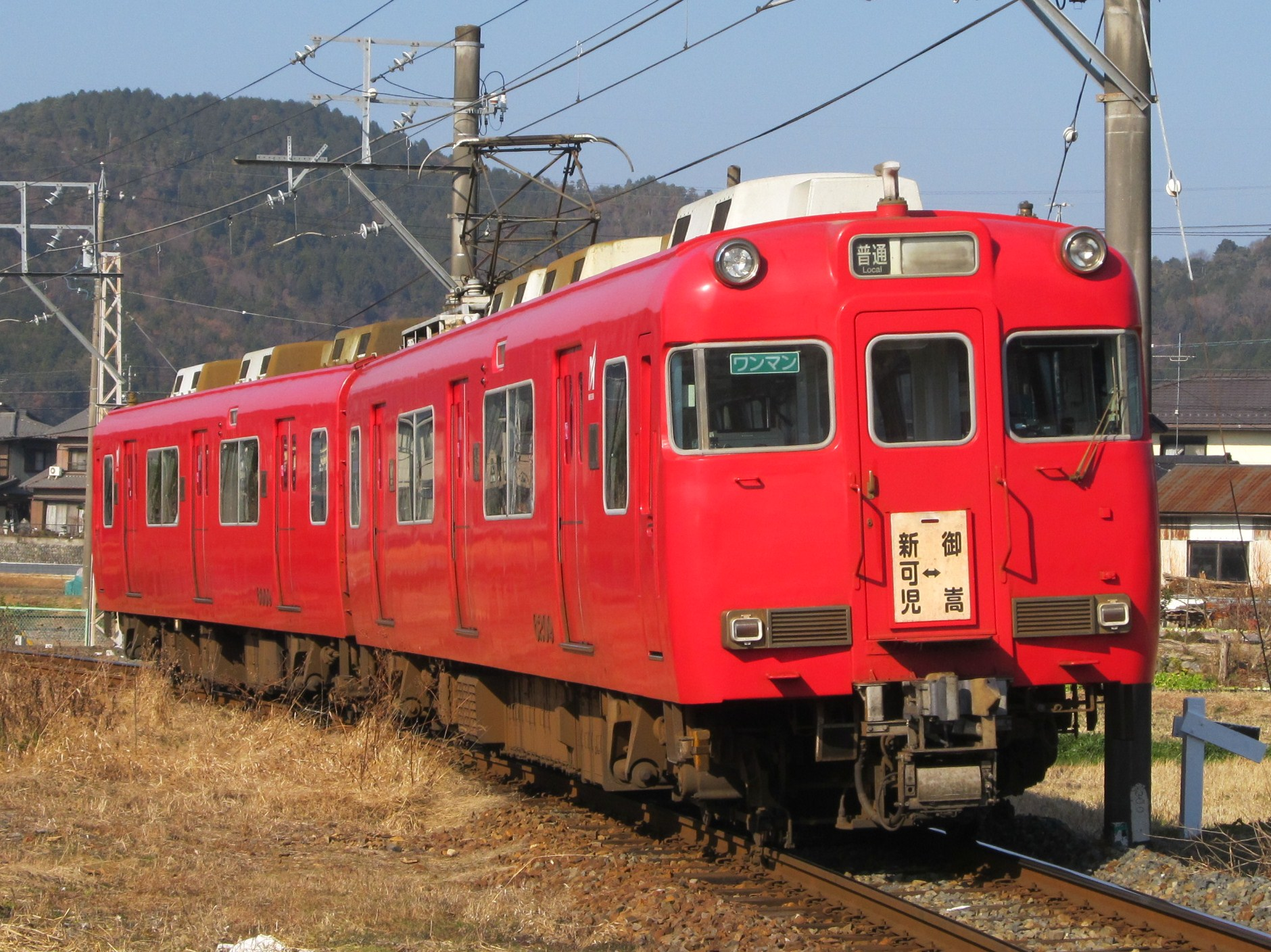 Meitetsu 6000 series. Bound for Shin Kani.